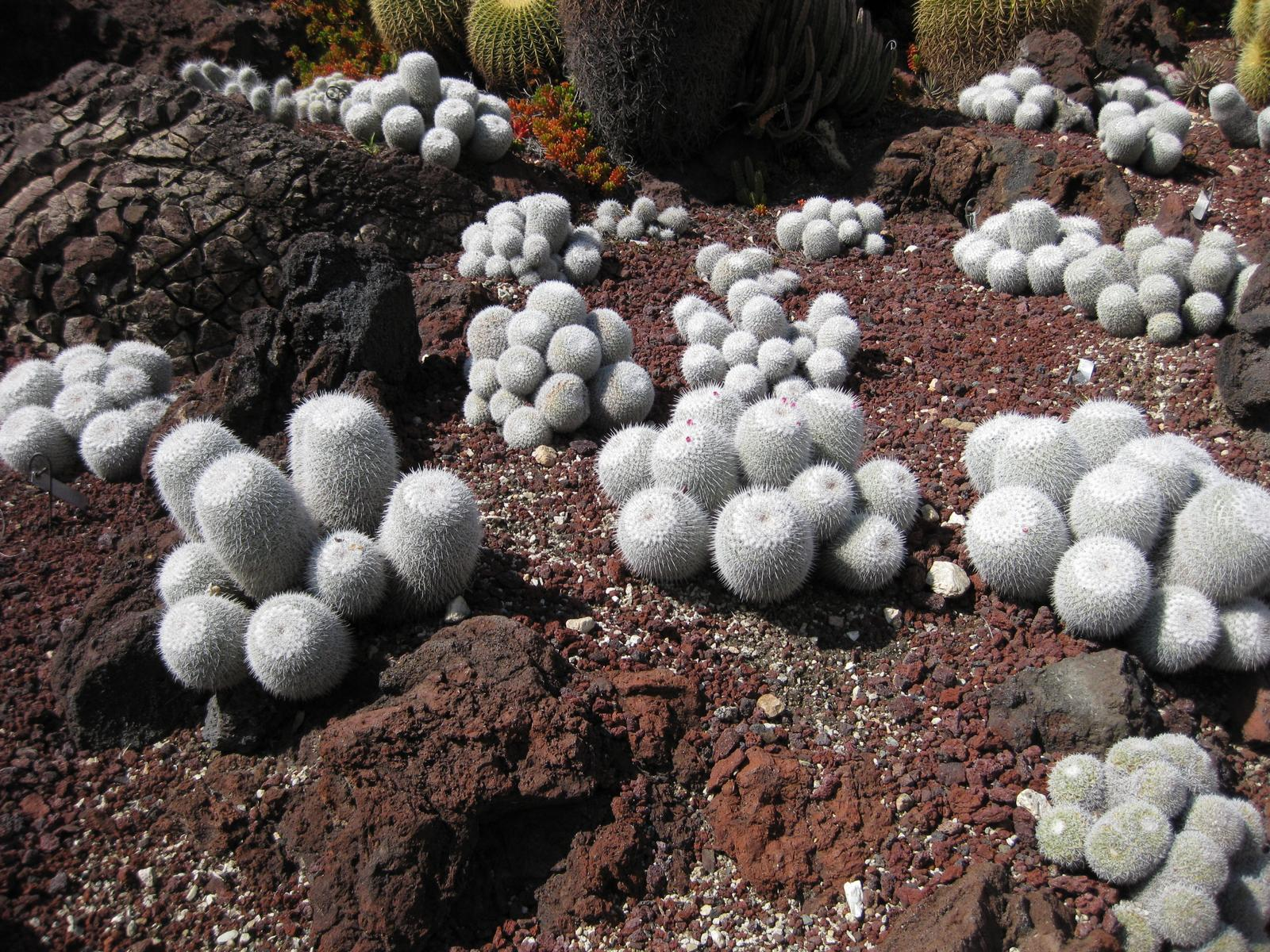 Mammillaria geminispina. Photographed at Huntington Gardens (Los Angeles, California) in March